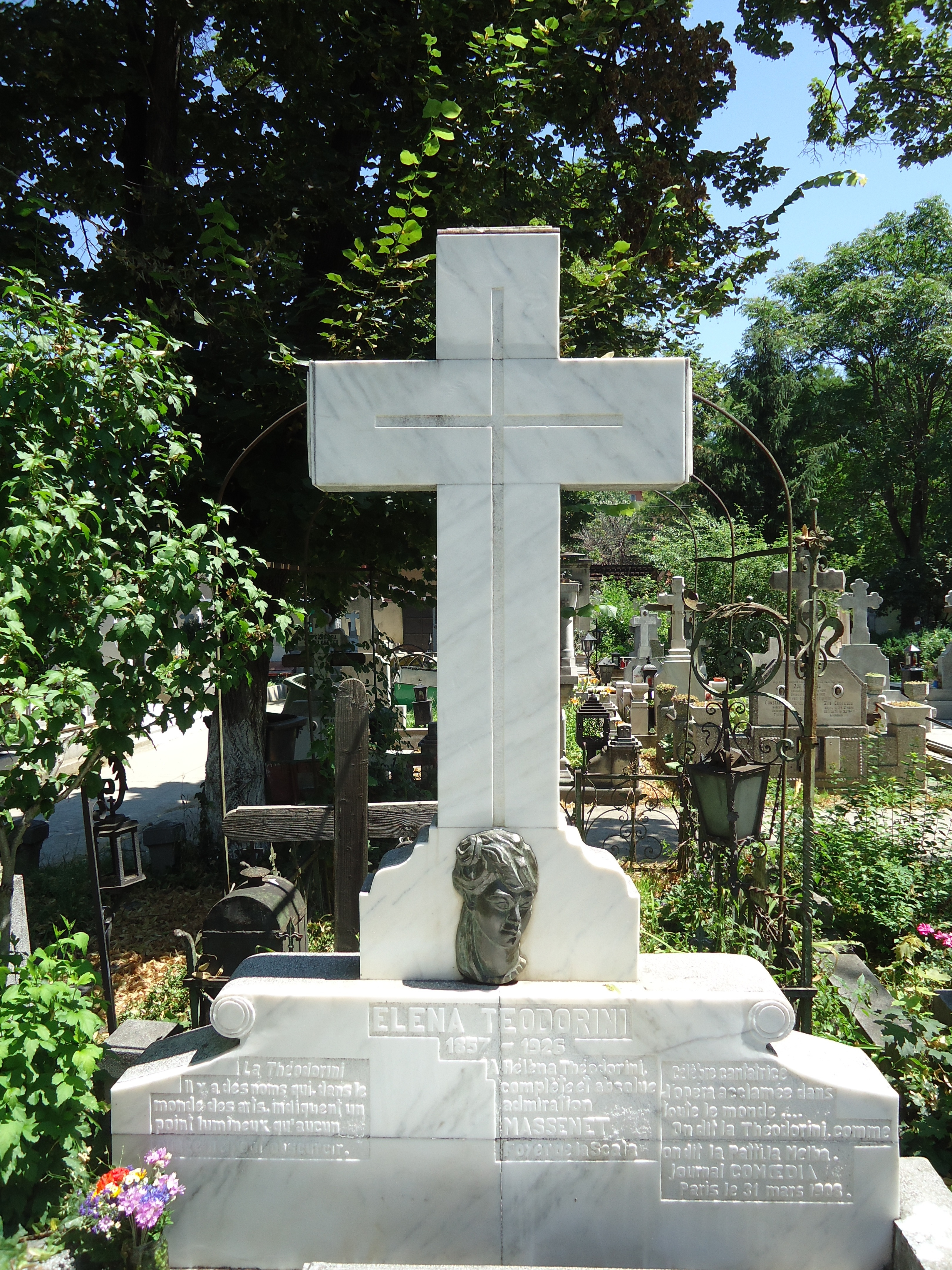 MONUMENTUL_Elena Teodorini de la Cimitirul Sf.Vineri din Bucuresti, refacut in anul 1993 de catre Profesorul Universitar Florin POPENTIU VLADICESCU, stranepotul celebrei Cantarete de Opera.